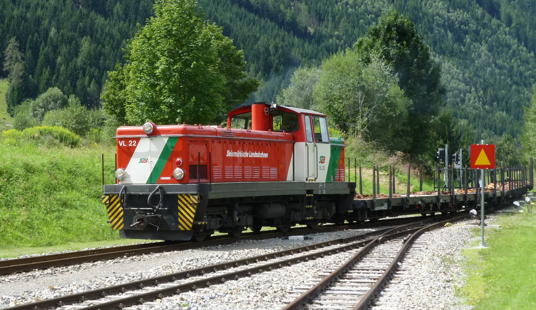 Loco VL22 of the Steiermärkische Landesbahnen entering the Stadl an der Mur station, District of Murau, Styria.